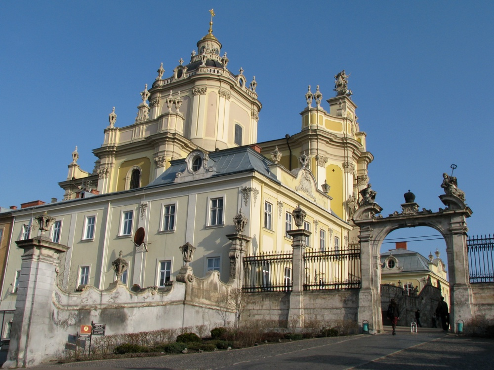 St George's Cathedral in Lviv, Ukraine is an Ukrainian Greek Catholic Church and located on St George Hill, over-looking the city of Lviv.